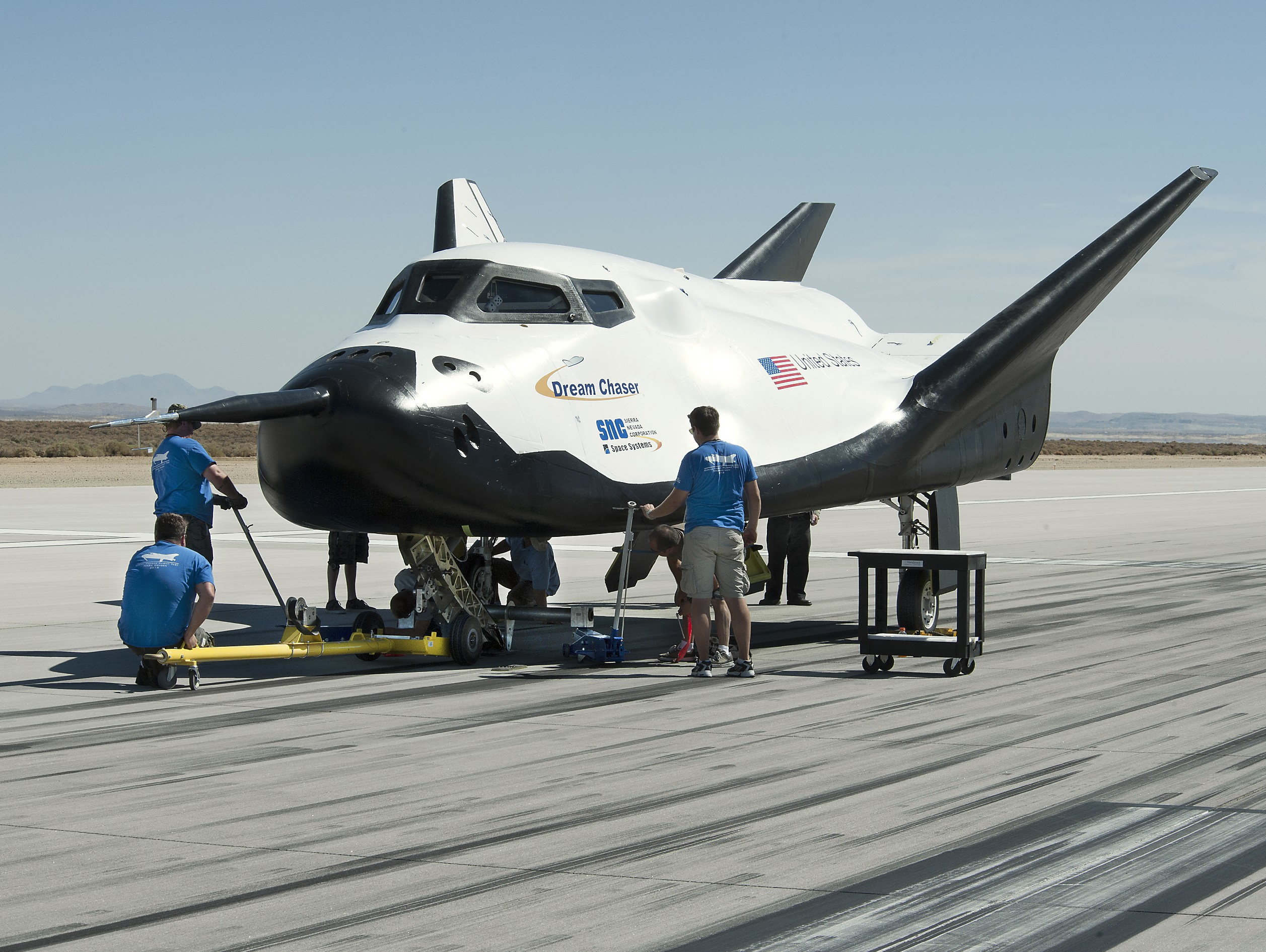 Edwards, Calif. – ED13-0266-054- Sierra Nevada Corporation, or SNC, team members check the company's Dream Chaser flight vehicle systems following a 60 mph tow test on taxi and runways at NASA's Dryden Flight Research Center at Edwards Air Force Base in California. Ground testing at 10, 20, 40 and 60 miles per hour is helping the company validate the performance of the spacecraft's braking and landing systems prior to captive-carry and free-flight tests scheduled for later this year. SNC is continuing the development of its Dream Chaser spacecraft under the agency's Commercial Crew Development Round 2, or CCDev2, and Commercial Crew Integrated Capability, or CCiCap, phases, which are intended to lead to the availability of commercial human spaceflight services for government and commercial customers.